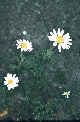 Sicilian botanical endemisms Anthemis ismelia